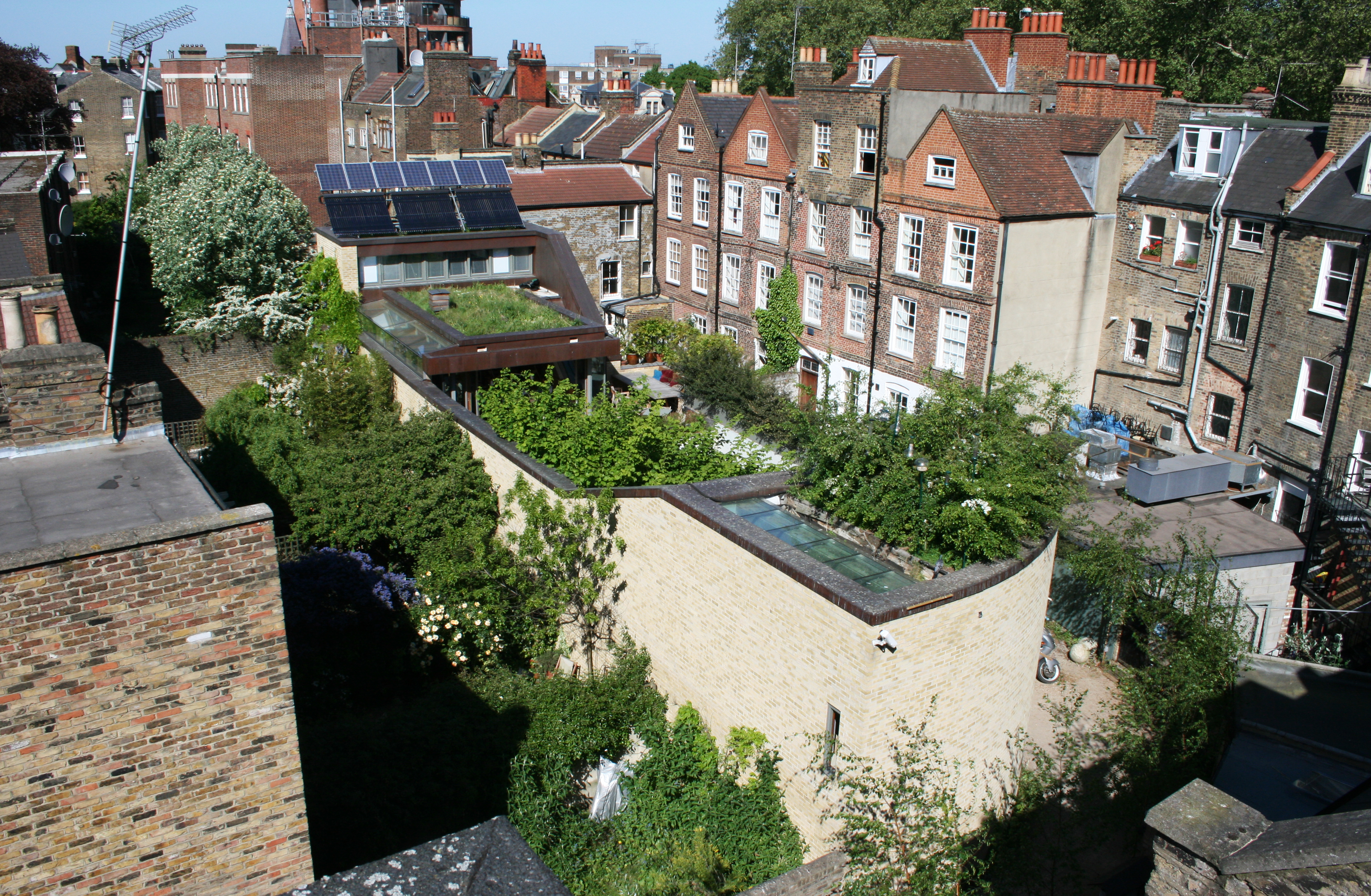 Photograph of The Muse, designed by Justin Bere.